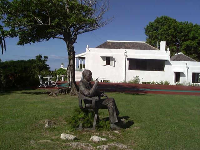 This is a photo of Noel Coward's estate "Firefly" which I took in 2007 using my own camera.